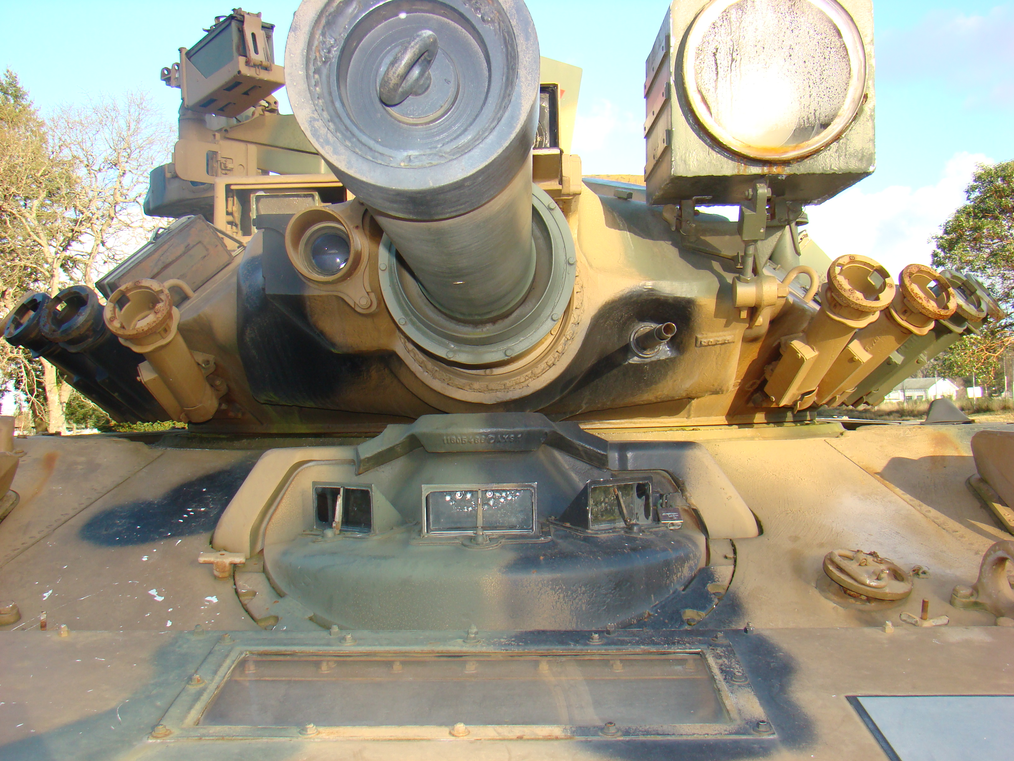 M551A1 Sheridan swim board with window Ft Lewis Military Museum